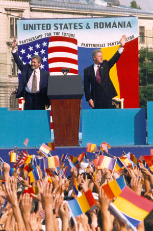 President Bill Clinton visiting Romanian president Emil Constantinescu in 1997